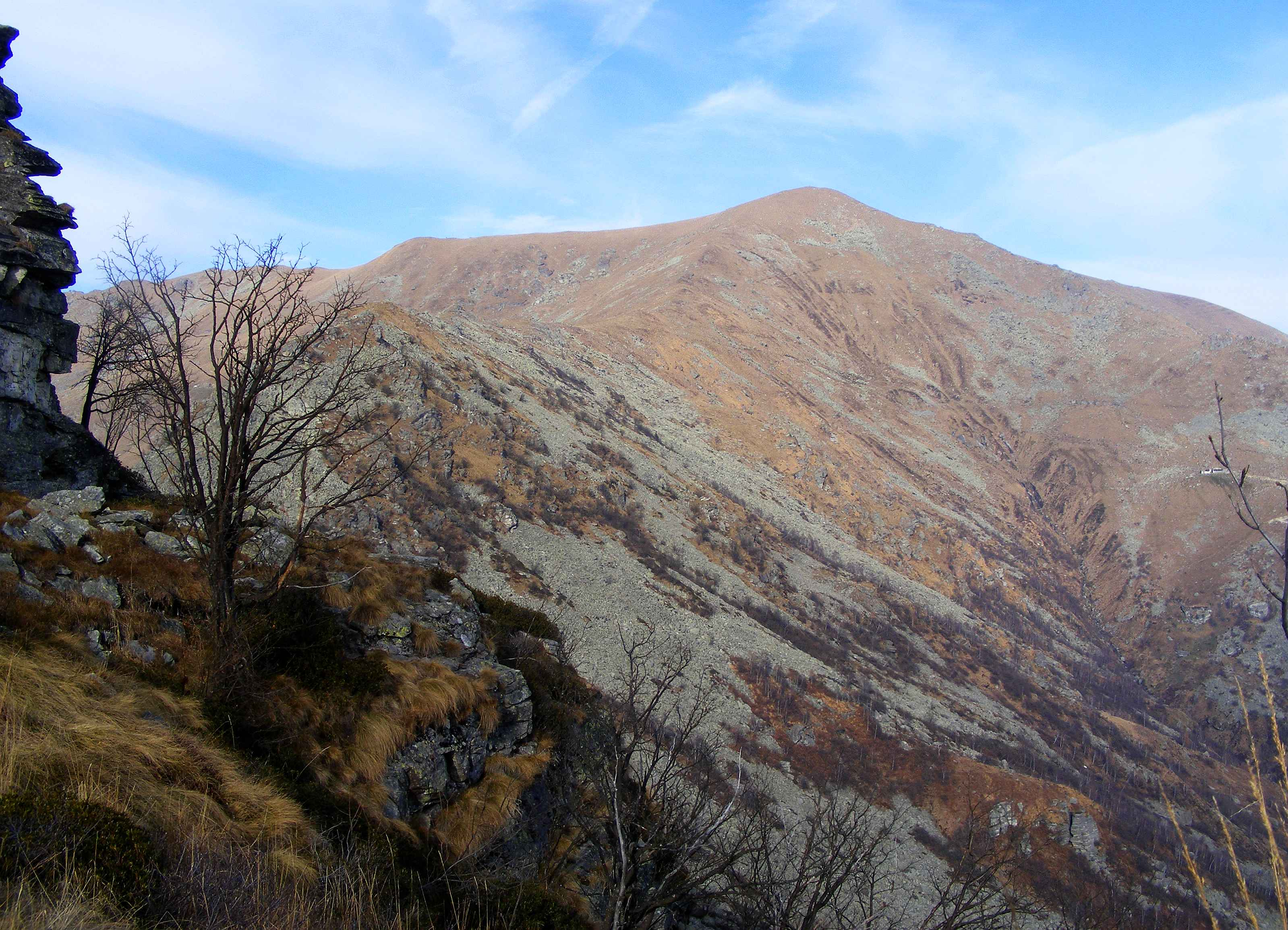 Monte Soglio (Graian Alps, TO, Italy) from its south-east ridge (near Rocca Perabianca)